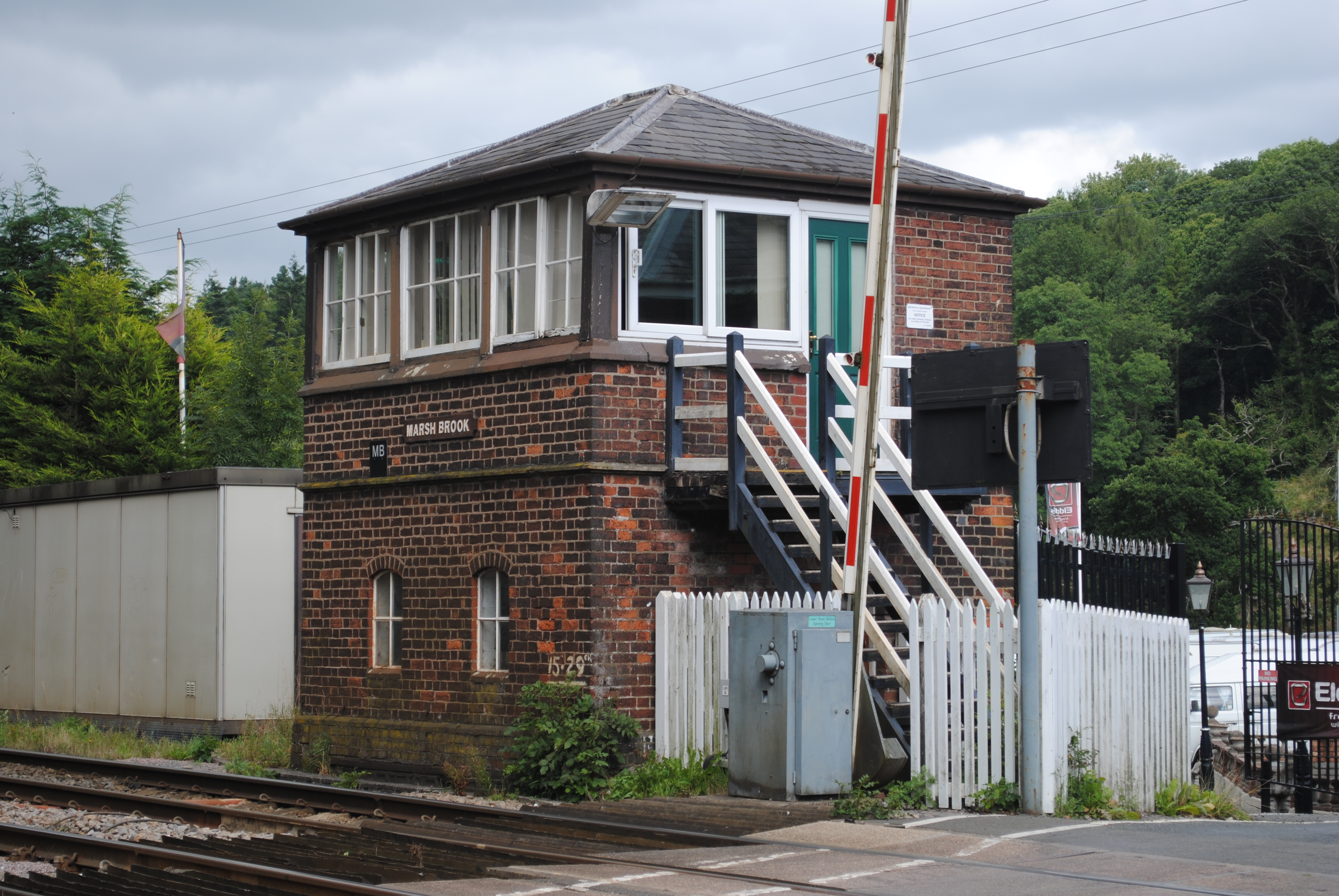 Marshbrook Signal Box on the Welsh Marches line between Shrewsbury and Hereford.